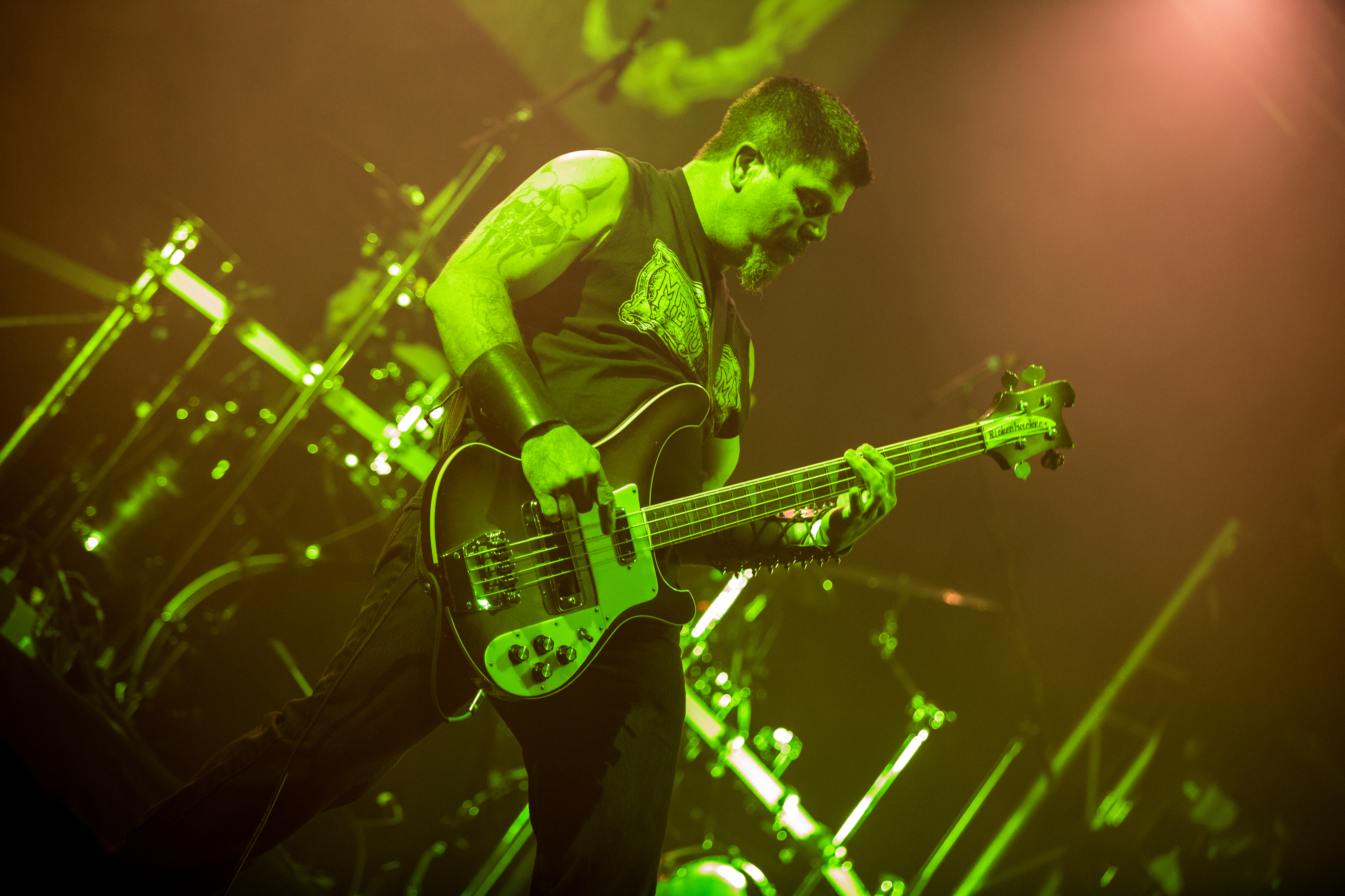 The American death metal band Autopsy at the Party.San Metal Open Air 2017 in Obermehler-Schlotheim/Germany.